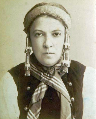 Maria Gavrilovna Savina in the role of Akulina in Leo Tolstoy's play The Power of Darkness, being performed at the Alexandrinsky Theatre in 1895.